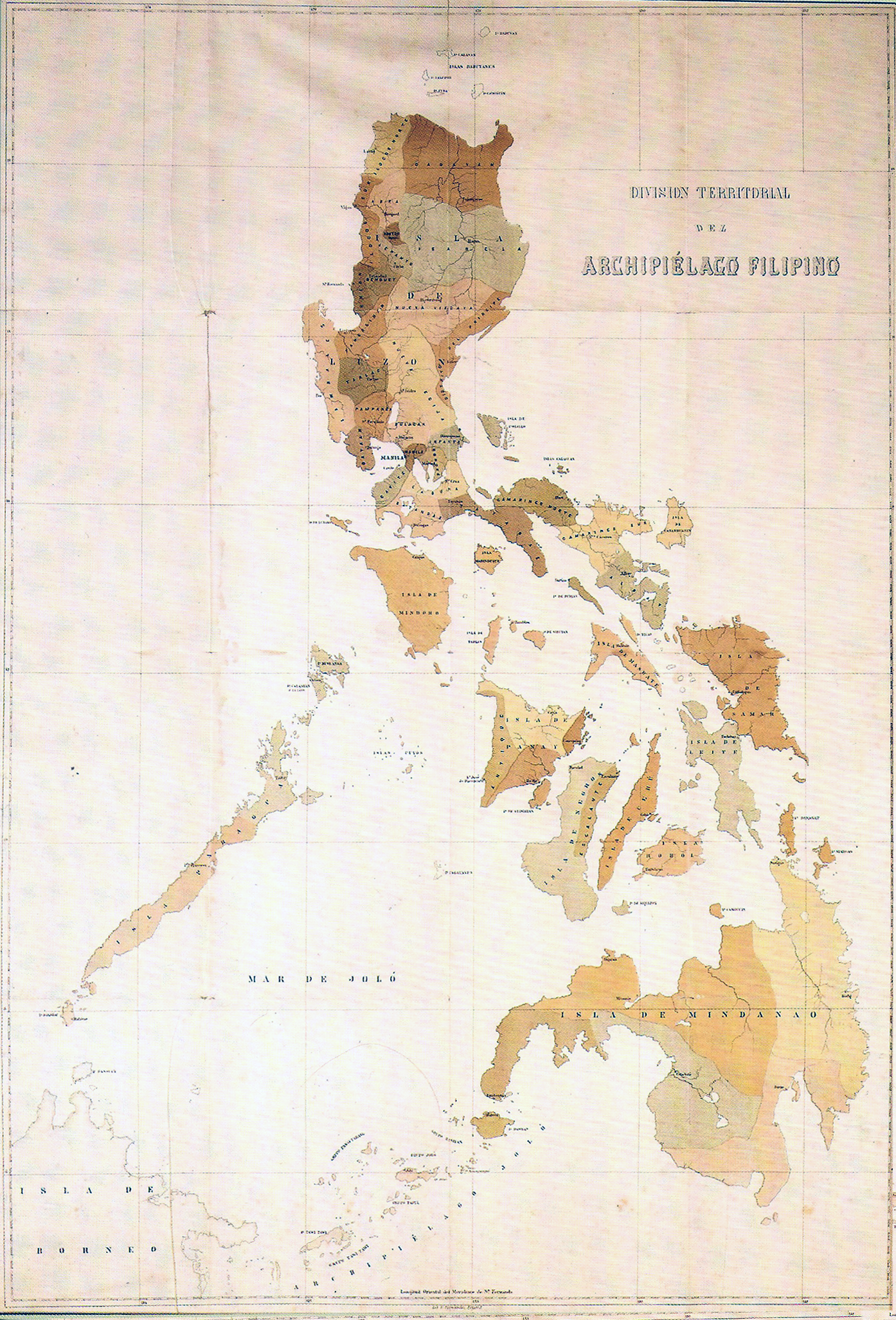 Territorial map of the Philippines